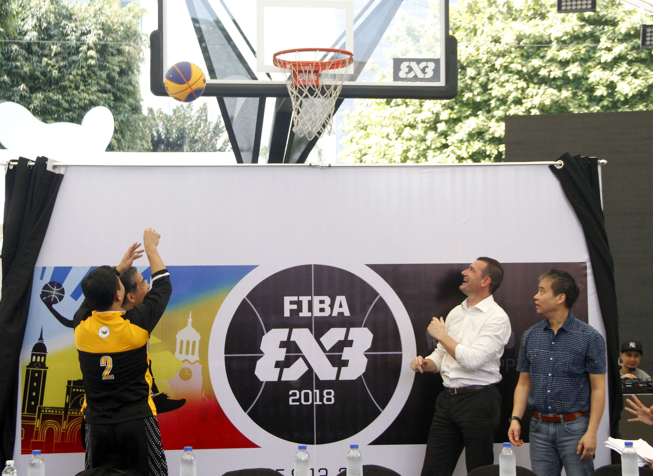 (From left) Senator and Samahang Basketbol ng Pilipinas (SBP) chairman Sonny Angara try easy shots while SBP president Alfredo Panlilio, International Basketball Federation (FIBA) 3x3 managing director Alex Sanchez (right) and Senator and SBP Partner Joel Villanueva looks on during the unveiling of the FIBA 3x3 World Cup 2018 hosting in Manila on Thursday (Jan. 18, 2018) held at the Bonifacio Global City (BGC) Activity Center in Taguig City. The historic hosting of the Philippines will be held on June 8-12, 2018. (PNA photo by Jess M. Escaros Jr.)